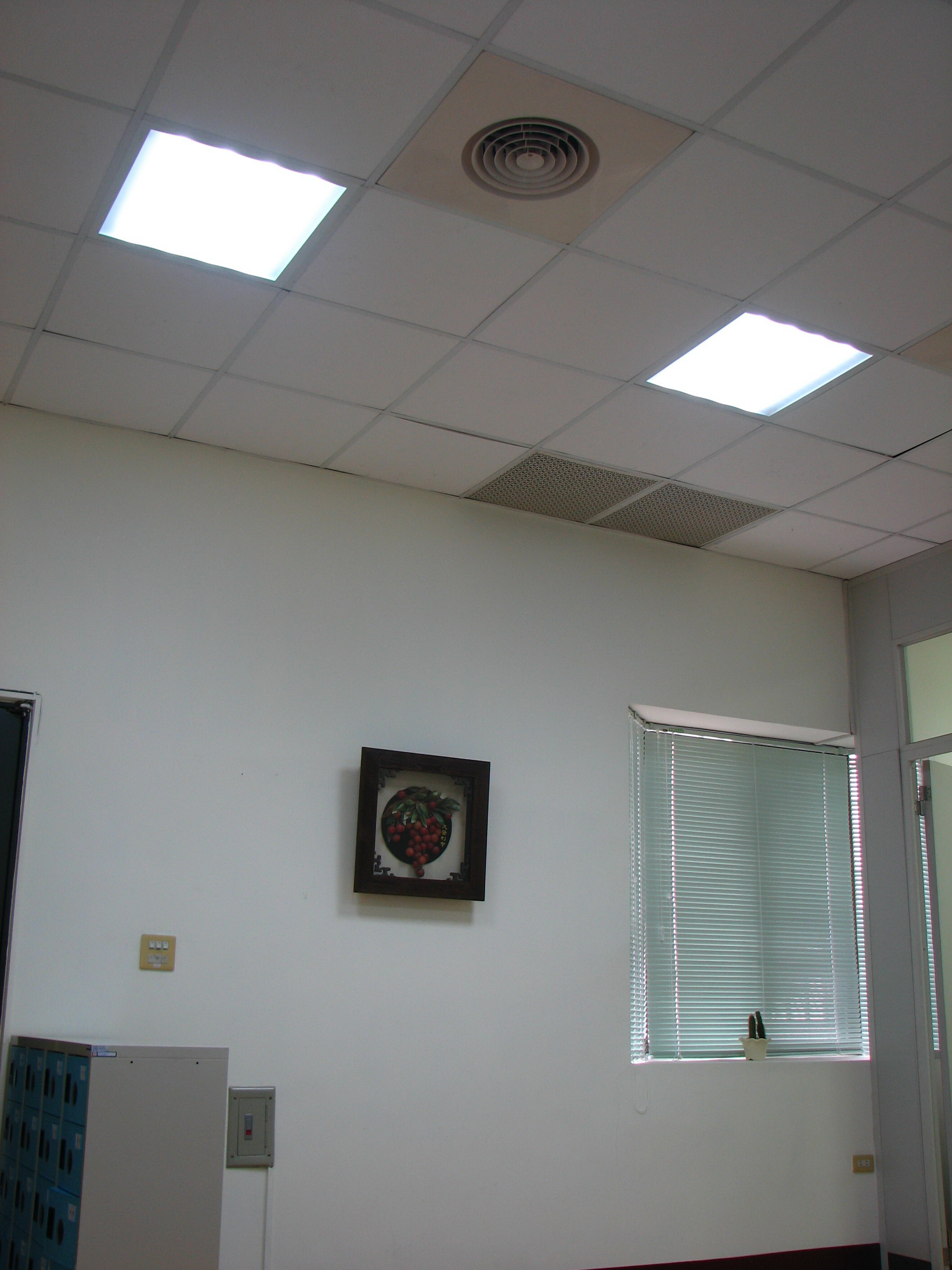 Dropped ceiling equipped with LED lighting